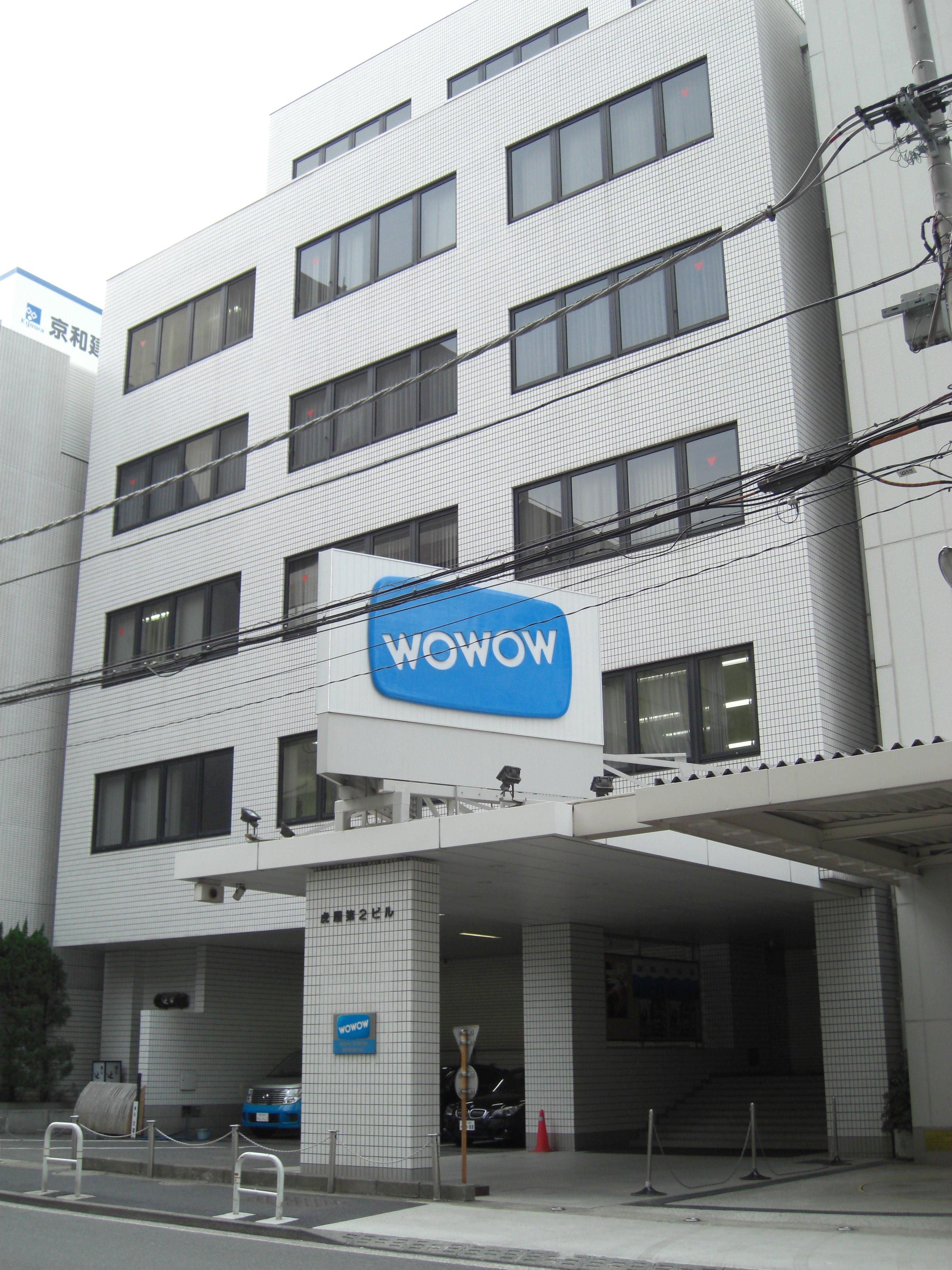 Toraya Building 2 - Former WOWOW INC. headquarters - 1-5-8, Moto Akasaka, Minato-ku, Tokyo 107-8080